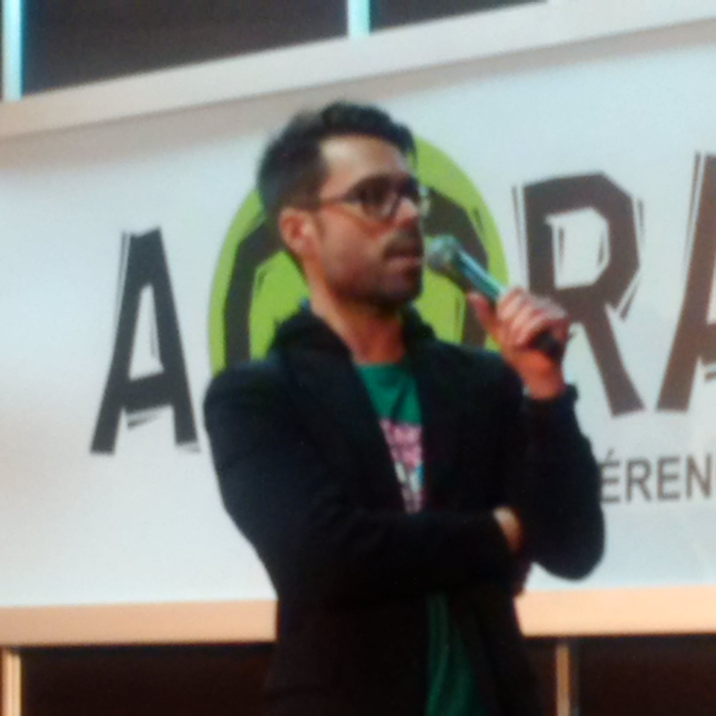 Pharmacist and author Olivier Bernard presenting at Montreal's 2017 Salon du livre. (picture 2 of 2)